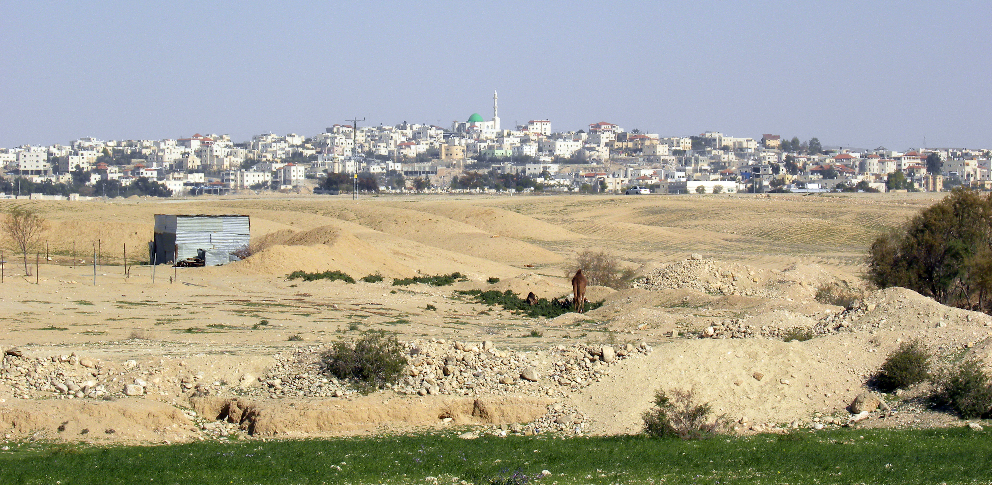 Ar'arat an-Naqab, South District, Israel.